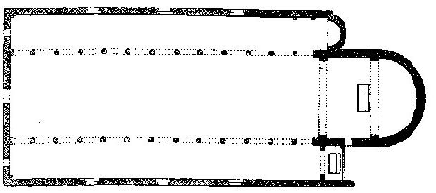 plan Church of S. Apollinaire in Classe